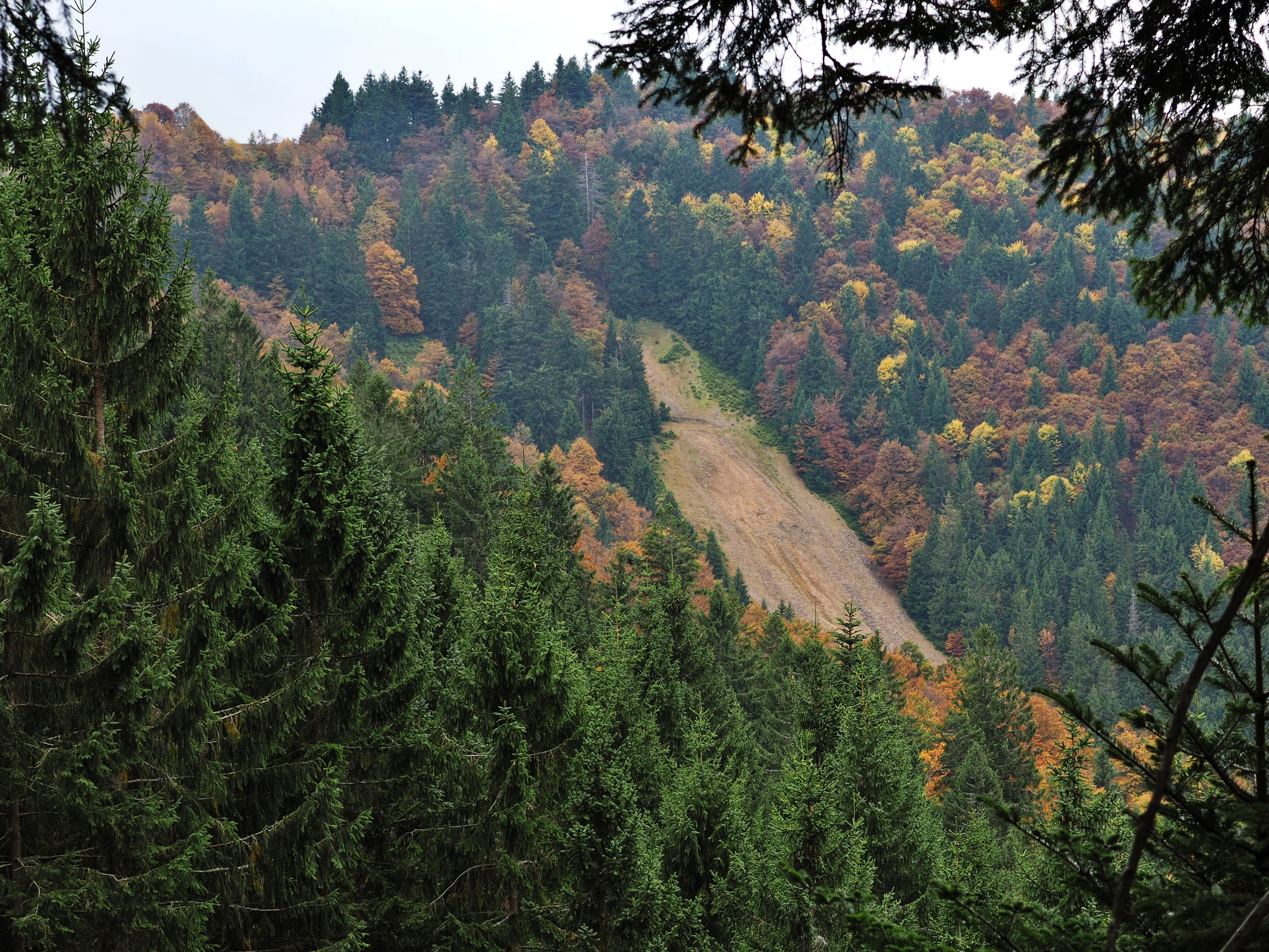 Steep scree slope on the north-eastern side of Schauinsland mountain, Black Forest